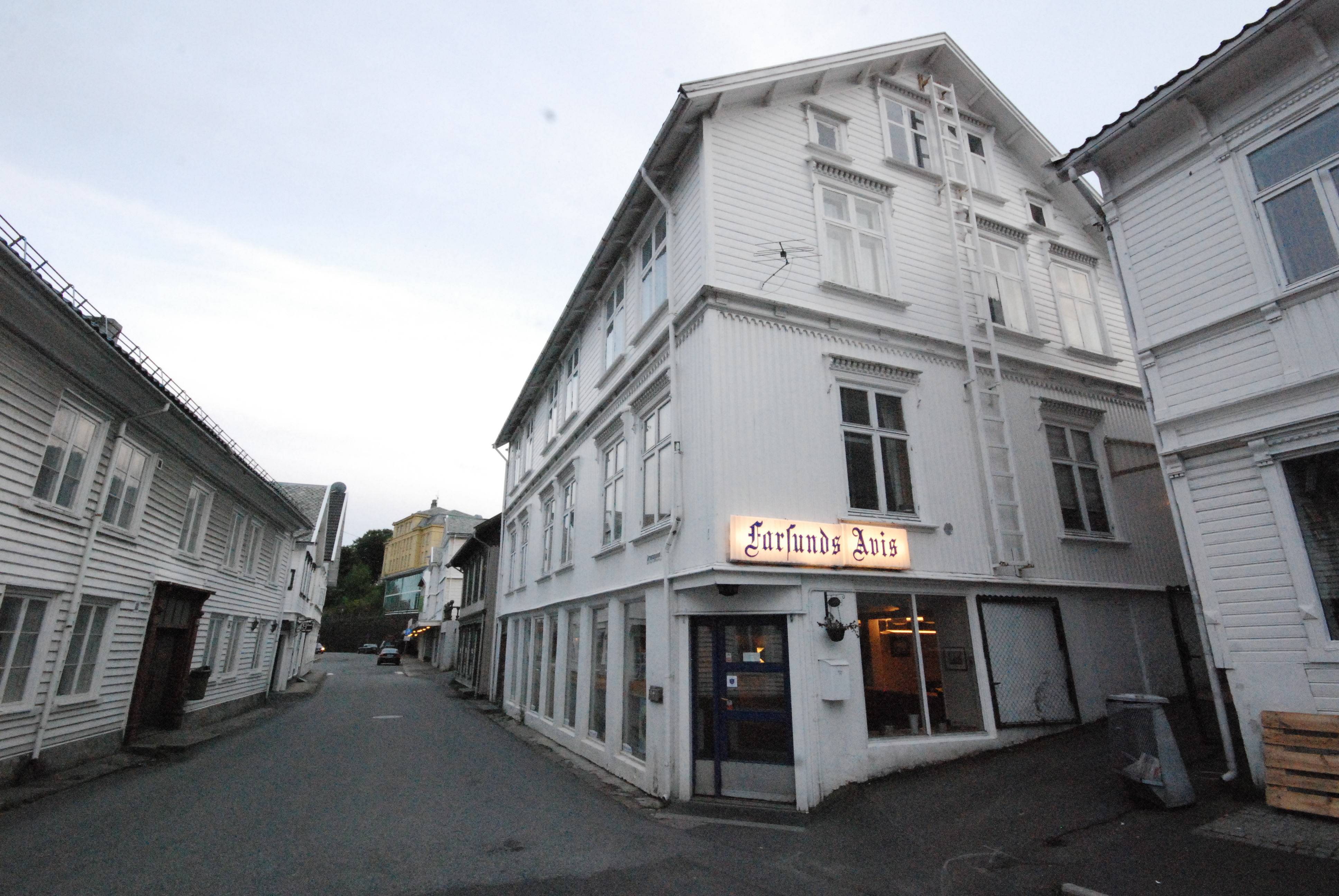 Headquarter, Farsunds Avis